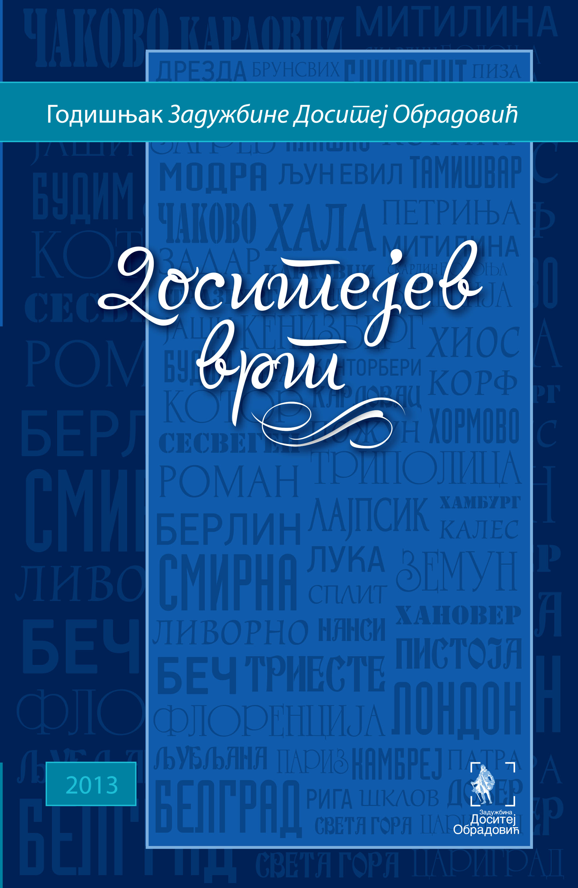 Front page